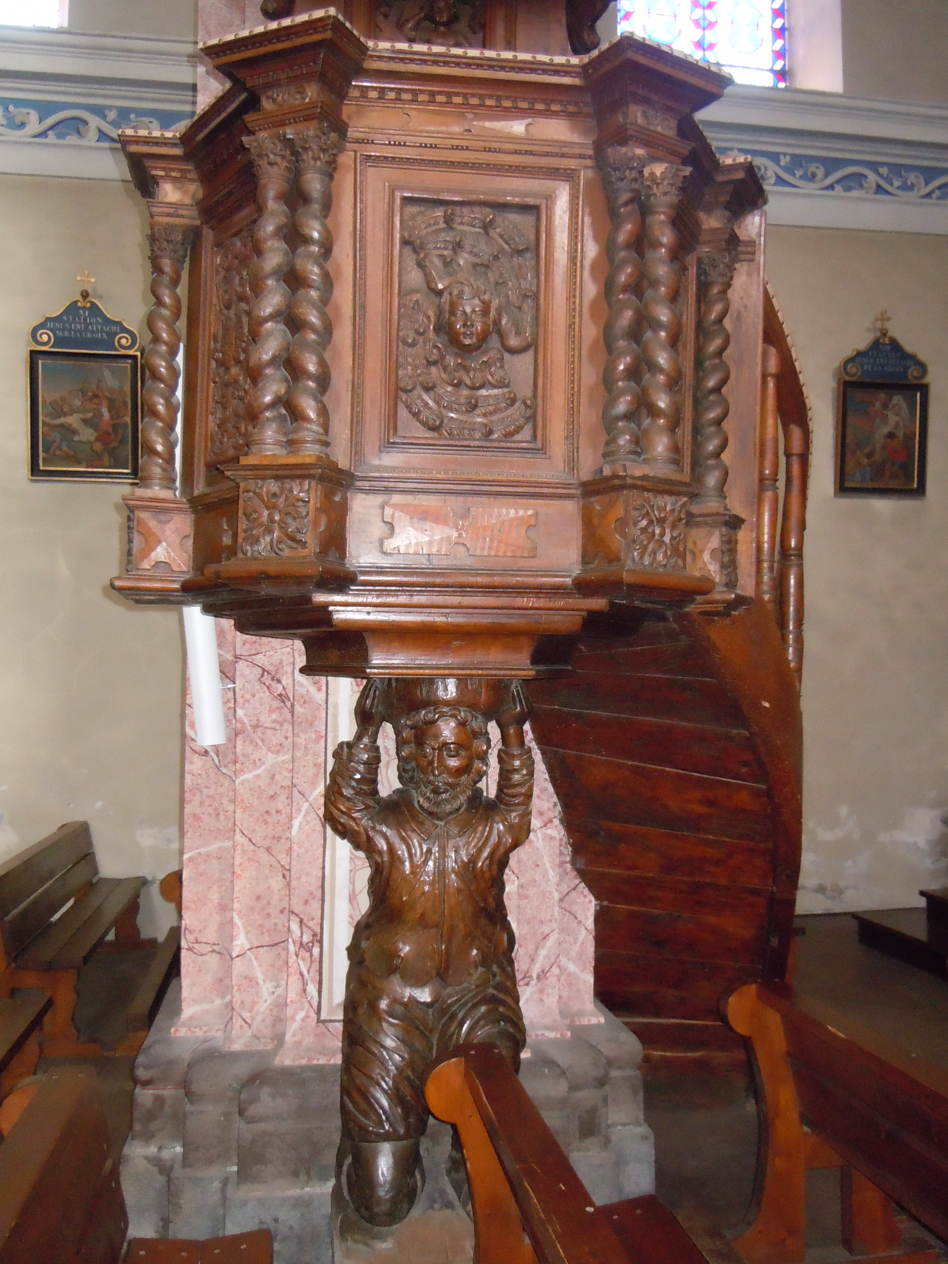 Église Saint-Pierre-et-Saint-Paul - Passy (Haute-Savoie) - Chaire de l'église - XVIIIème siècle